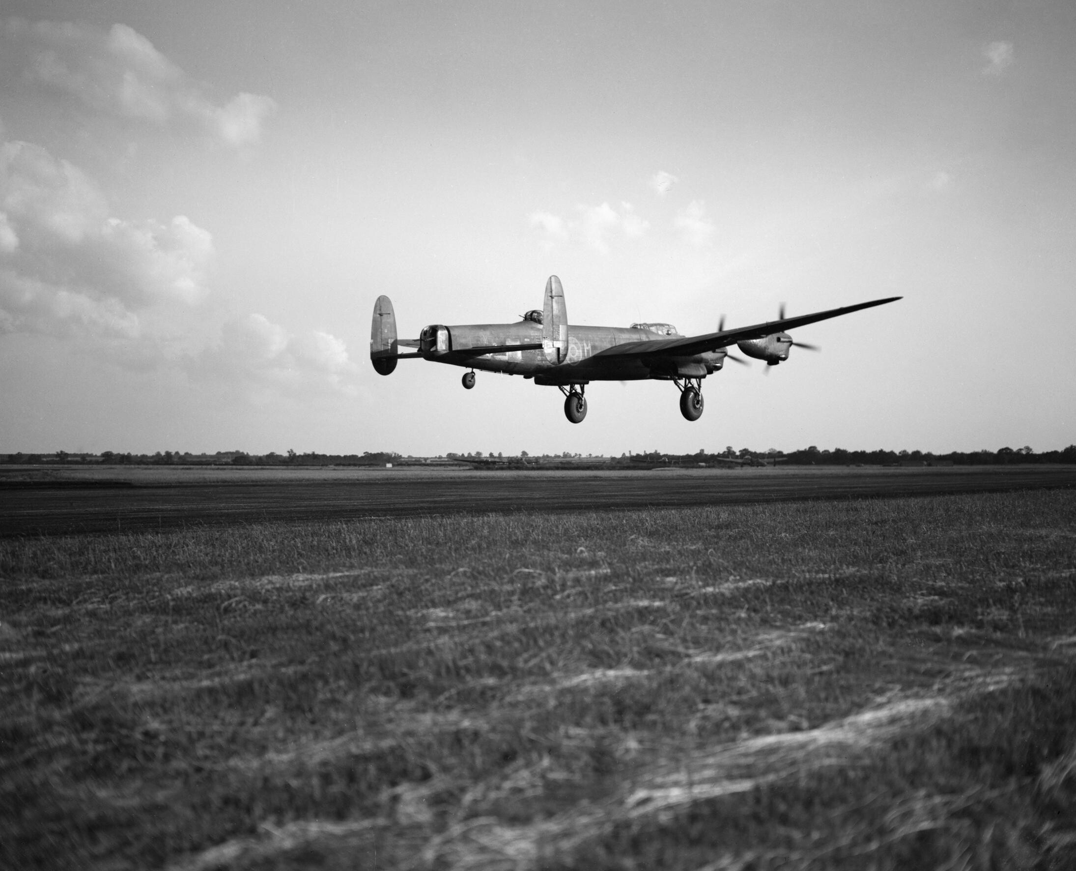 Royal Air Force Bomber Command, 1942-1945. Avro Lancaster B Mark III, ED831 'WS-H', of No 9 Squadron RAF, flown by Squadron Leader A M Hobbs RNZAF and his crew, taking off at Bardney, Lincolnshire, for a raid on the Zeppelin works at Friedrichshafen, on the shores of Lake Constance (Bodensee), Germany.